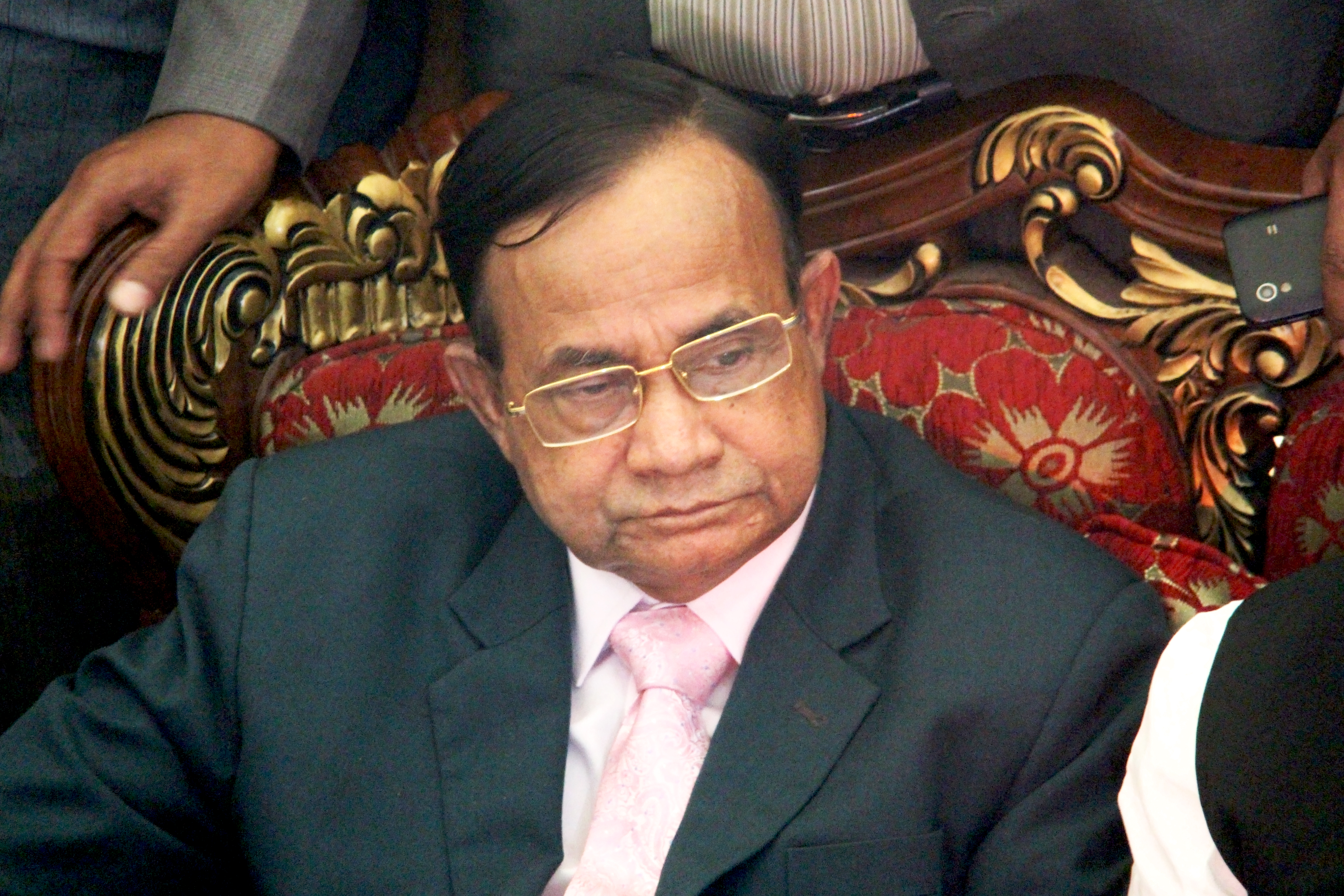 Mujibul Haque Mujib is the current Rail Minister of Bangladesh Government.